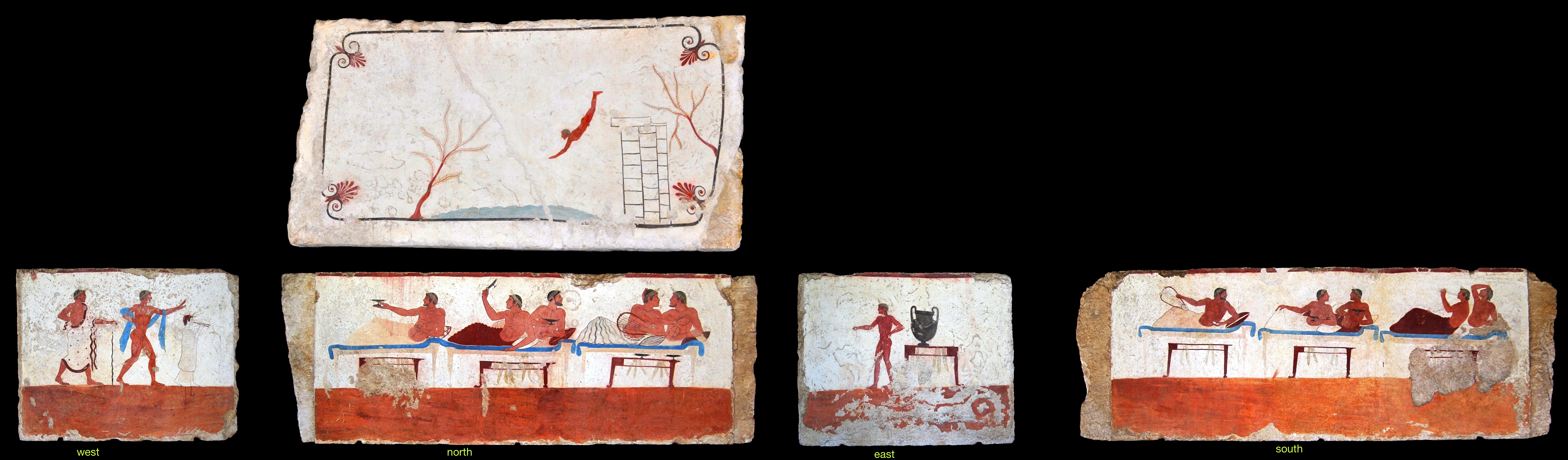 the Tomb of the diver in Paestum (470-480 BC).